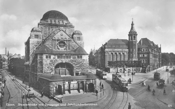 Essen, Ruhr, Germany, Alte Synagoge (left) and old-catholic Friedenskirche (right)